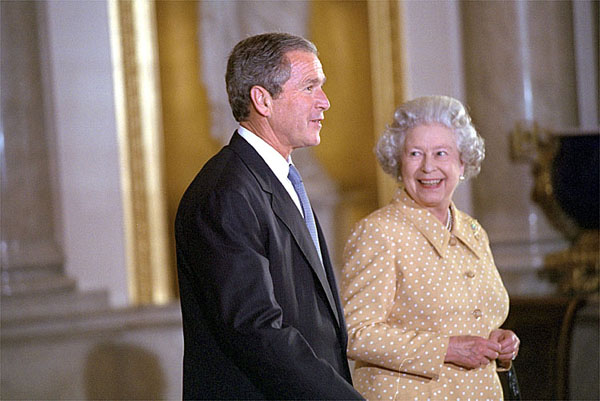 Her Majesty walks with the President through Buckingham Palace July 19, 2001.